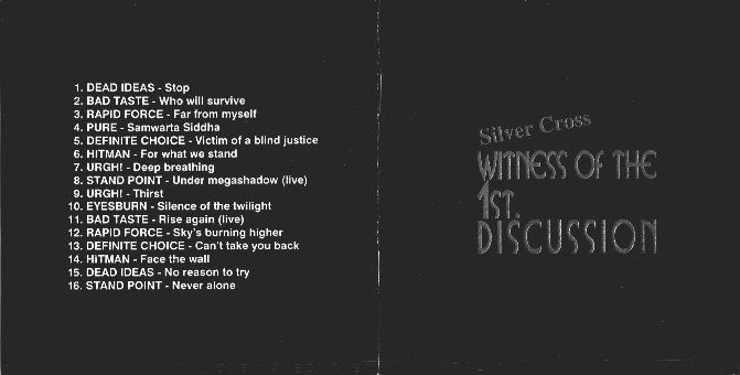 Various Artists - Witness of the 1st Discussion